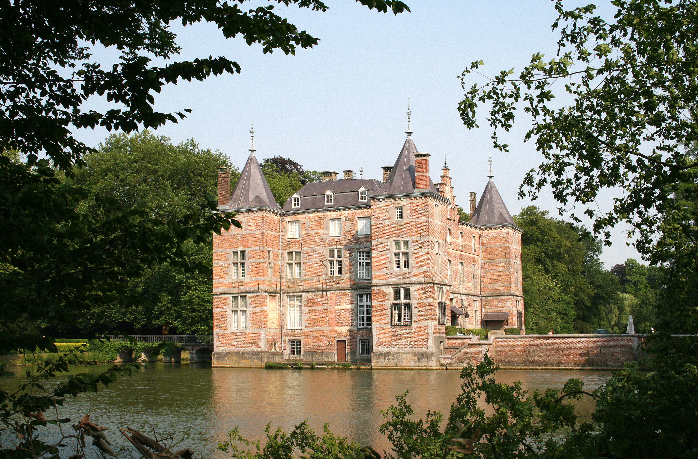 Anvaing (Belgium), the castle (XII-XVIth century).